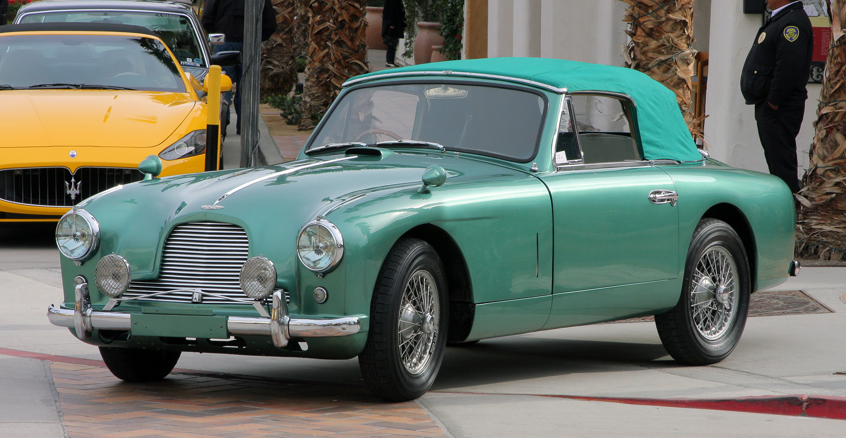 Aston Martin DB2/4 drophead coupé at the 2011 Desert Classic in La Quinta, CA